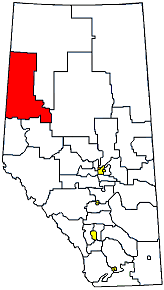 Map showing the location of the provincial electoral district of Dunvegan-Central Peace in Alberta